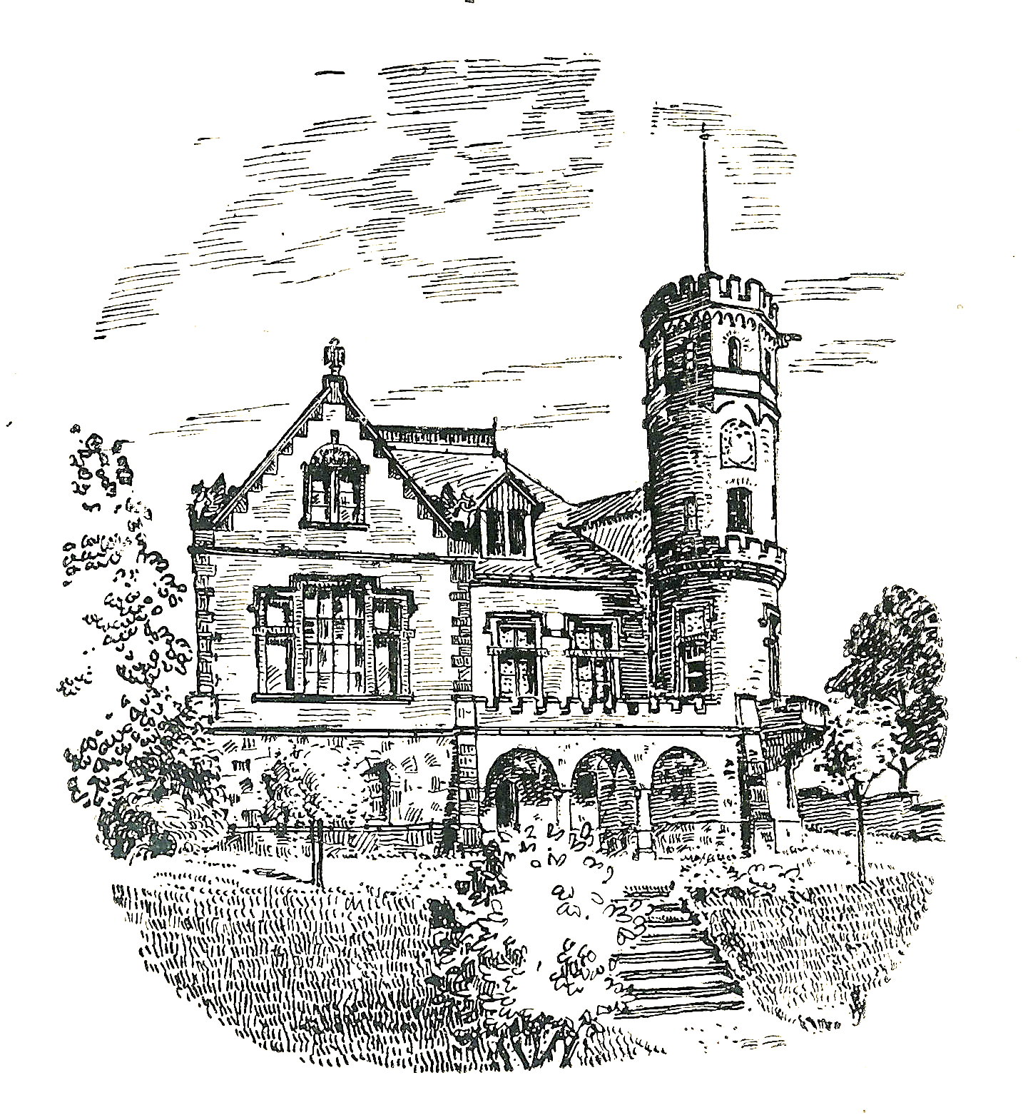 House of student fraternity Corps Starkenburgia Giessen (Germany), Wilhelmstrasse 38